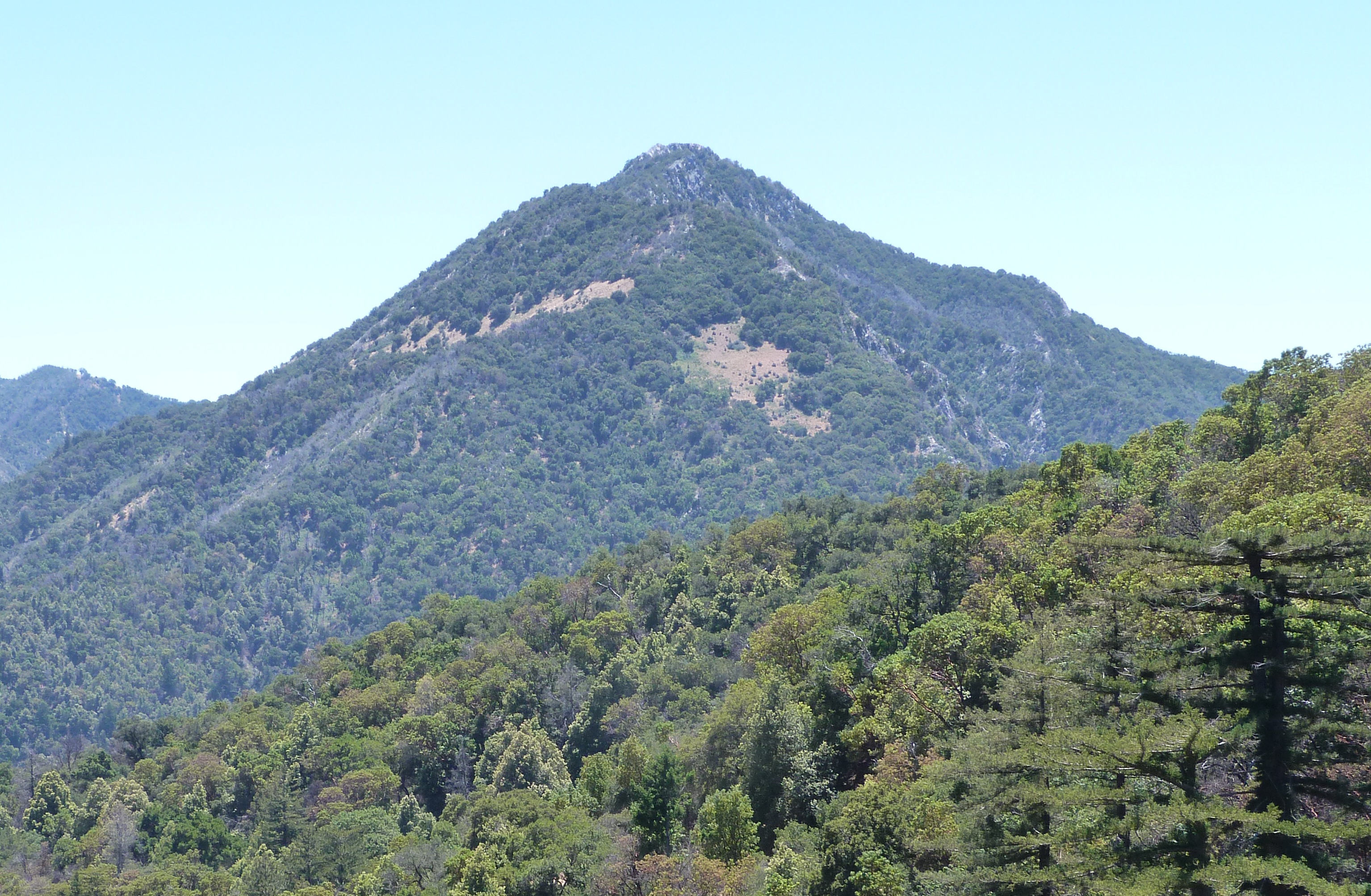 Sacred mountain to the Esselin people who used to live in this area. Bottchers Gap, Big Sur, California